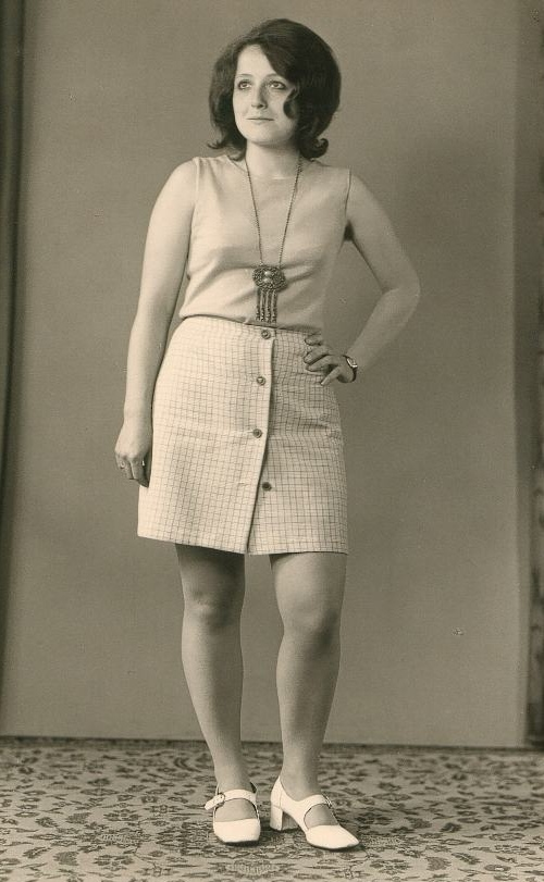 typical woman in fashion of the 70´s